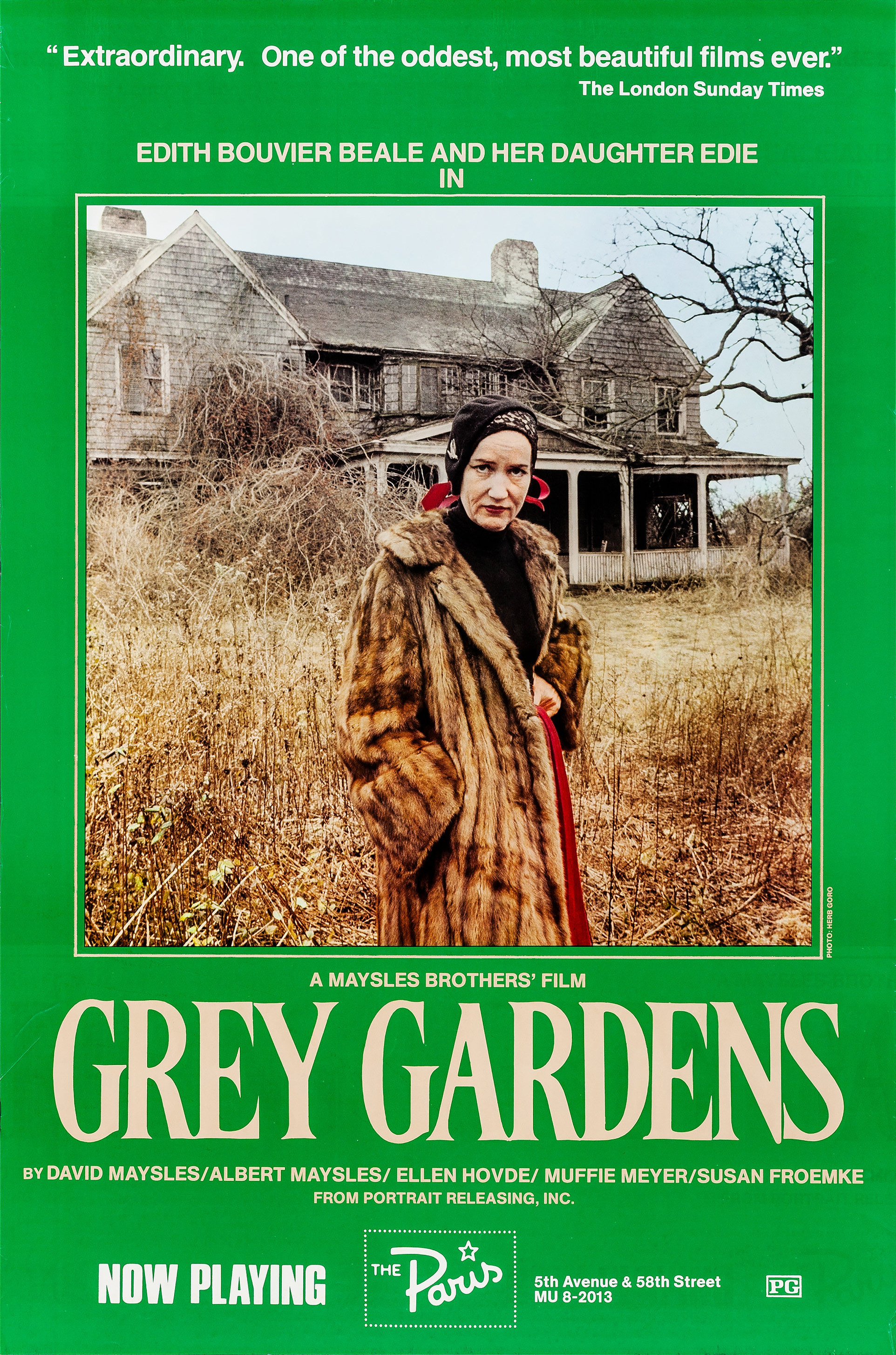 Theatrical release poster for the 1975 documentary film Grey Gardens, promoting 1976 screenings at the Paris Theater in Manhattan. The poster features a portrait photograph of Edith "Big Edie" Ewing Bouvier Beale (1895–1977) outside her derelict Grey Gardens estate in the Village of East Hampton, New York. LCCN 2004673428 at the Library of Congress.